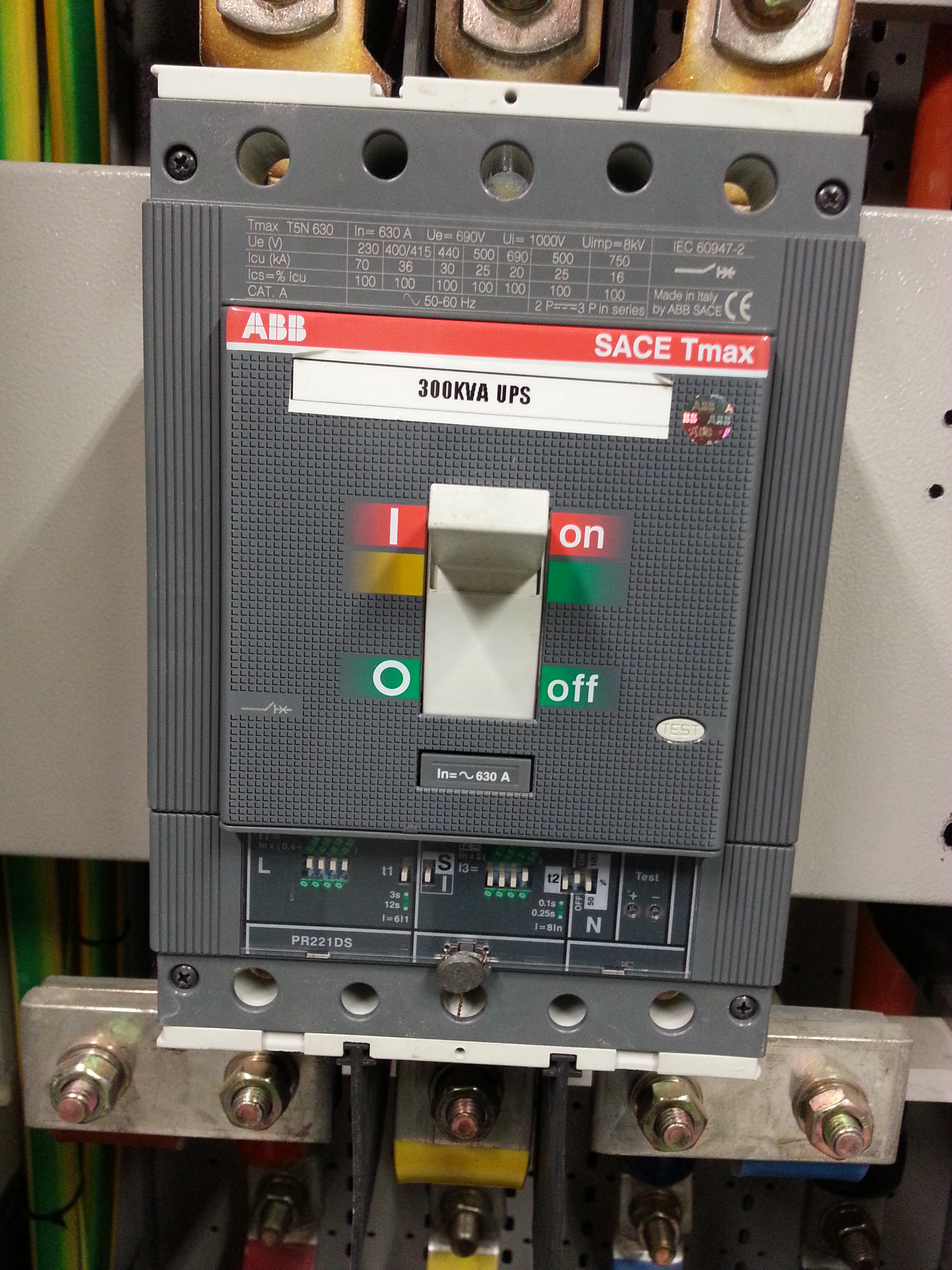 630 Amps Molded Case Circuit Breaker